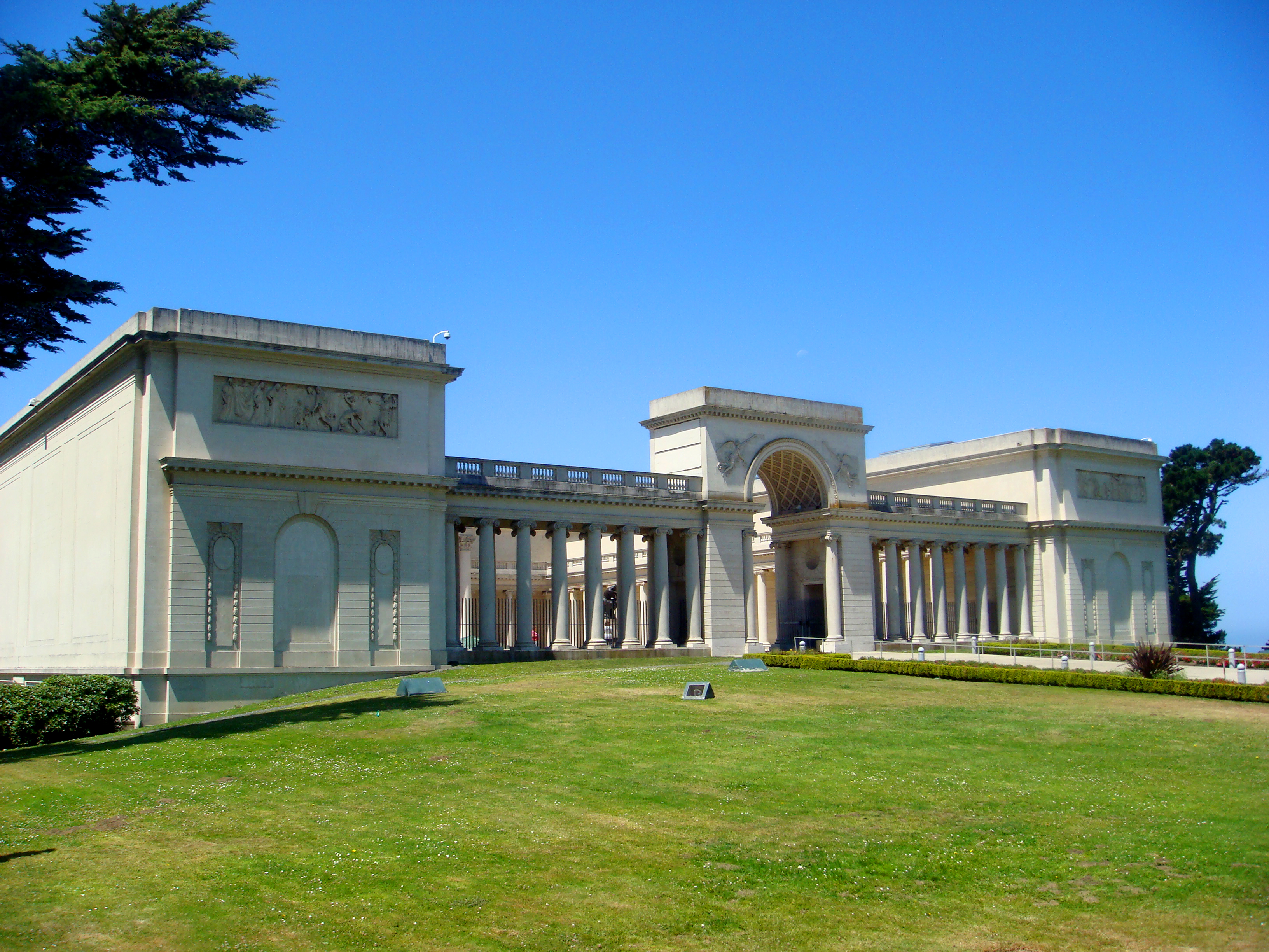 Legion of Honor, San Francisco